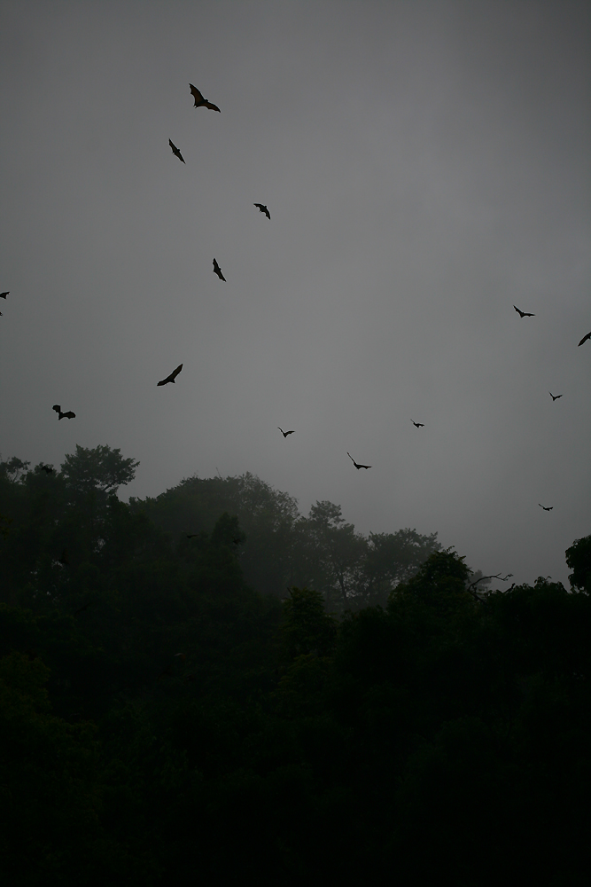 Flying Pteropus vampyrus at Mambucal (Manbukal), Negros Occidental, slopes of Mount Kanlaon, in the Philippines